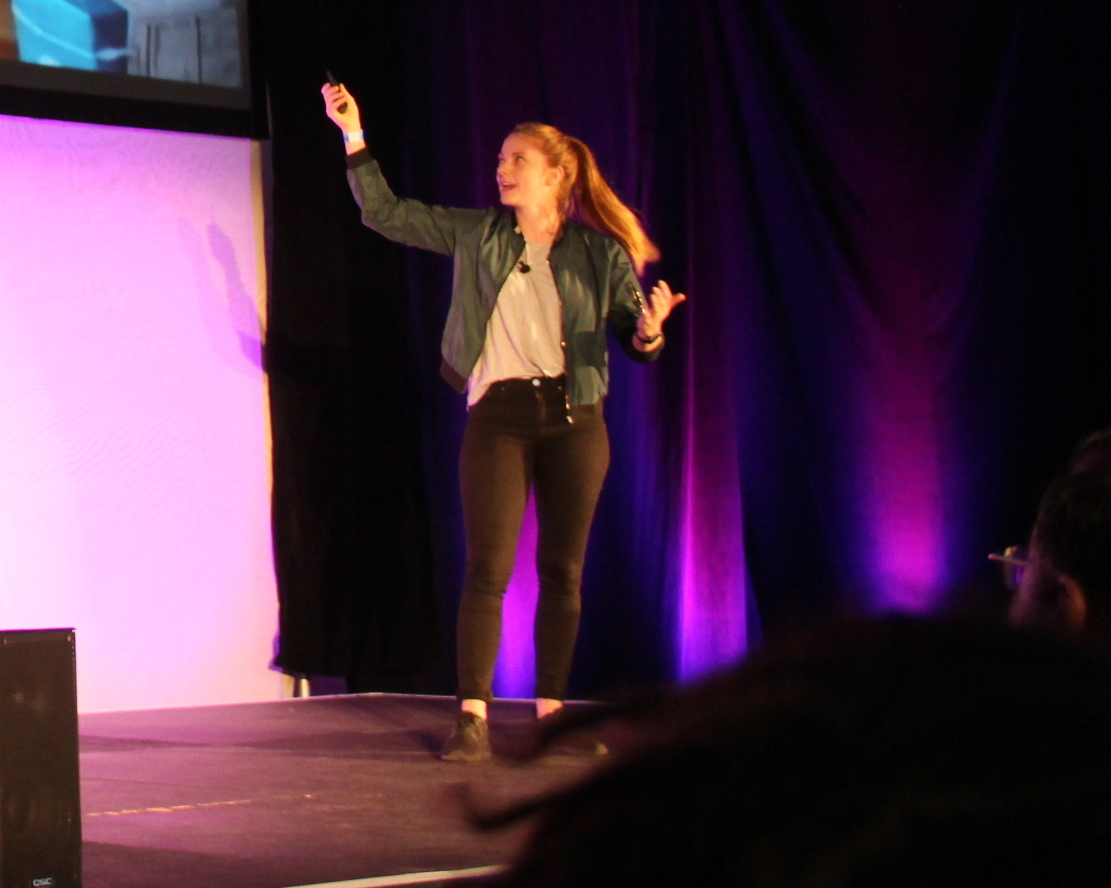 Simone Giertz presenting at the Palace of Arts building (Innovation Hangar) in San Francisco